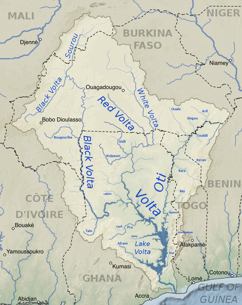 Map of the Volta River drainage basin showing the major tributaries and Lake Volta. Data from GTOPO30, HYDRO1k, and Natural Earth.